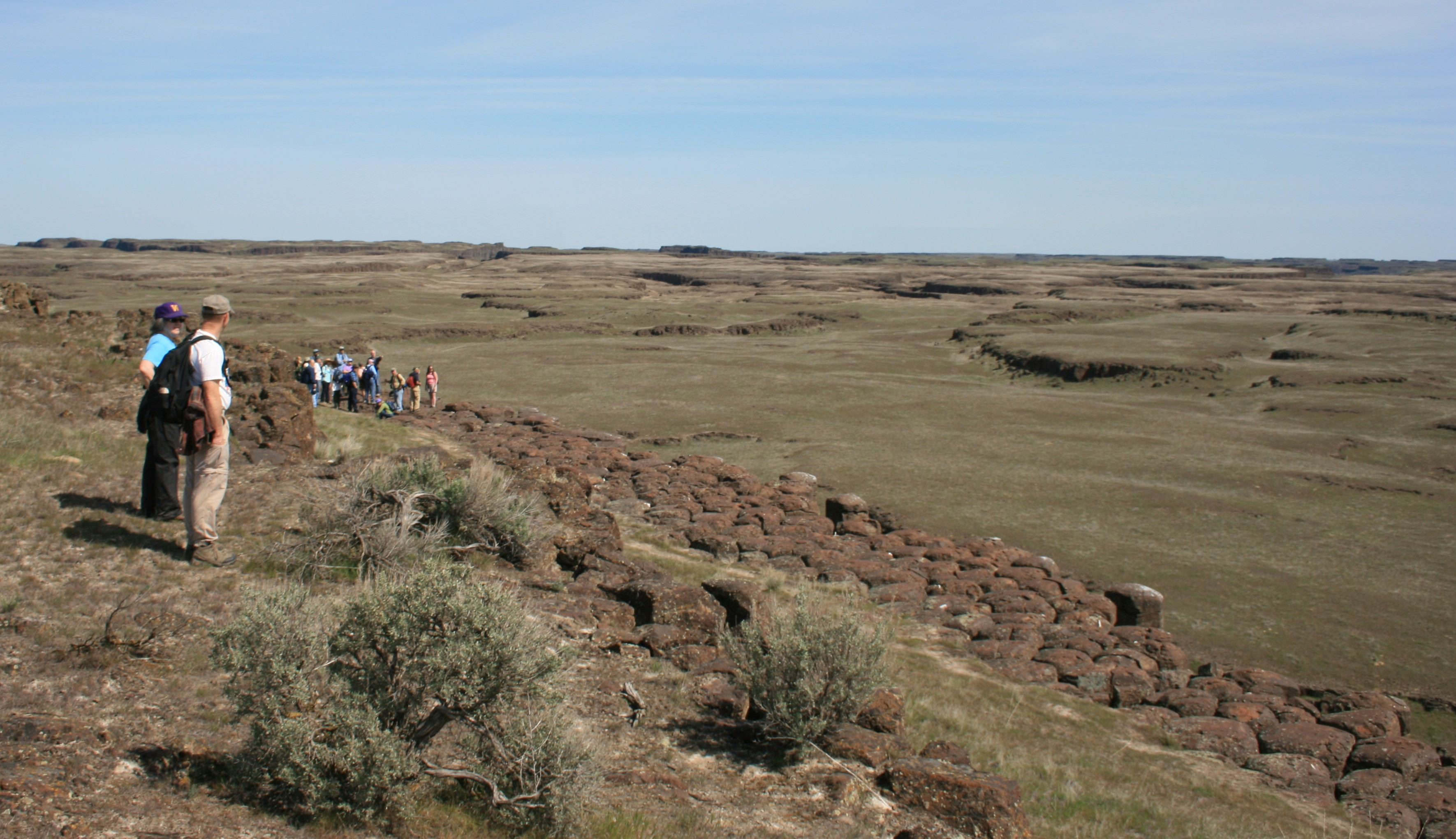 Drumheller Channels National Natural Landmark showcases the Drumheller Channels, which are the most significant example in the Columbia Plateau of basalt butte-and-basin channeled scablands. This National Natural Landmark is an extensively eroded landscape, located in south central Washington state characterized by hundreds of isolated, steep-sided hills (buttes) surrounded by a braided network of numerous channels, all but one of which are currently dry. It is a classic example of the tremendous erosive powers of extremely large floods such as those that reformed the Columbia Plateau volcanic terrain during the late Pleistocene glacial Missoula Floods.